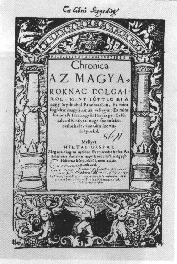 A Heltai-book: Chronica. Translation of cover text below. Hungarian (old) Chronica az magyaroknac dolgairol: mint iöttek ki a nagy Scythiábol Pannoniaban, Es mint foglaltac magoknac az orſzagot: Es mint birtác aßt Herczegröl Herczegre: Es Kiralyrol Kiralyra, nagy ſok tuſakodaſockal es ſzamtalan ſoc viadallyockal, Mellyet Heltai Gaspar Meg irta Magyar nyelven. [...] Hungarian (modern) Krónika a magyarok dolgairól: mint jöttek ki a nagy Szkítiából Pannóniába, és mint foglalták el maguknak az országot: és mint bírták azt hercegről hercegre: és királyról királyra, nagyon sok tusakodással és számtalanul sok viadallal, melyet Heltai Gáspár megírt magyar nyelven. [...] English Chronicle about the deeds of the Hungarians: how they came out from Scythia to Pannonia, and how they conquered the country for themselves: and how they ruled it from for prince to prince, and from king to king, with many great battles and numerous fights, what Gáspár Heltai wrote off in Hungarian language. [...]